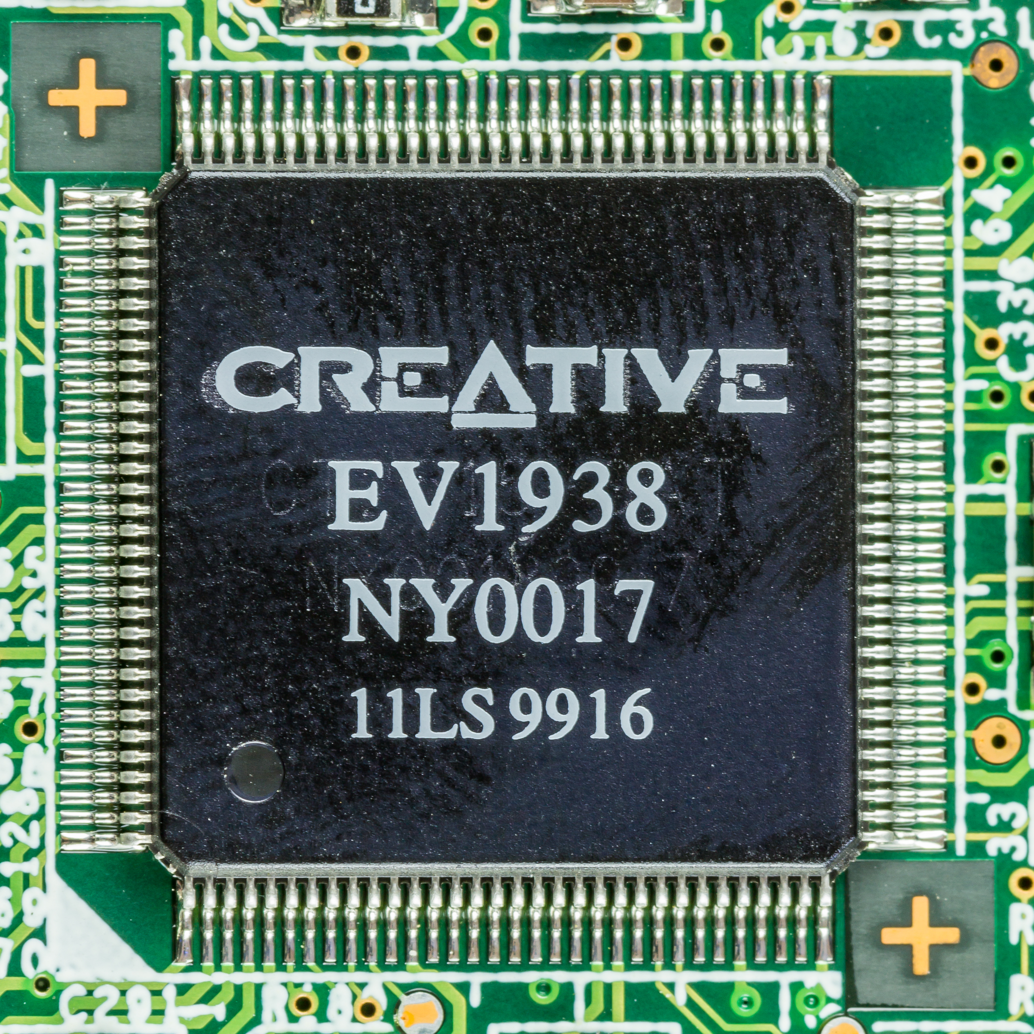 Lifetec LT9303 - Motherboard - Creative EV1938 - sound chip